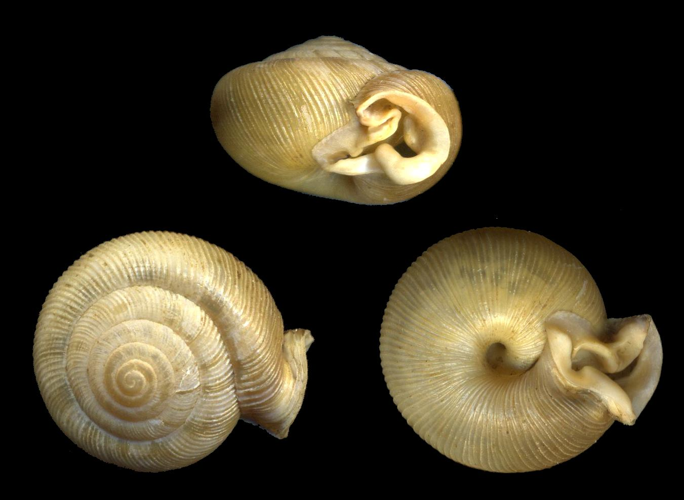 The polygyrid land snail Daedalochila uvulifera, about 11 mm in diameter (approx. 7/16 inches); Sarasota County, Florida, USA; 1967.